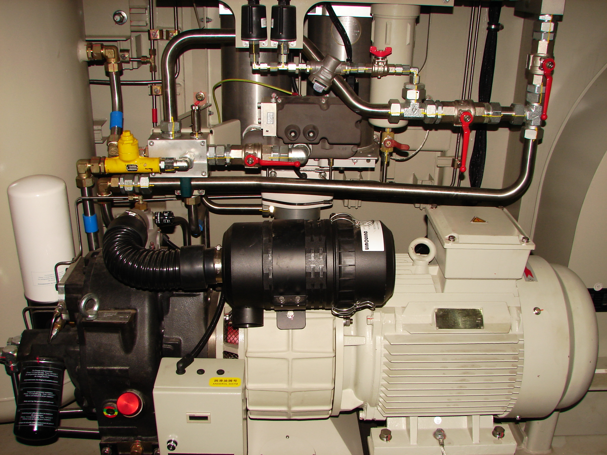 Compressor on TFR Class 22E no. 22-013Location: Pyramid South